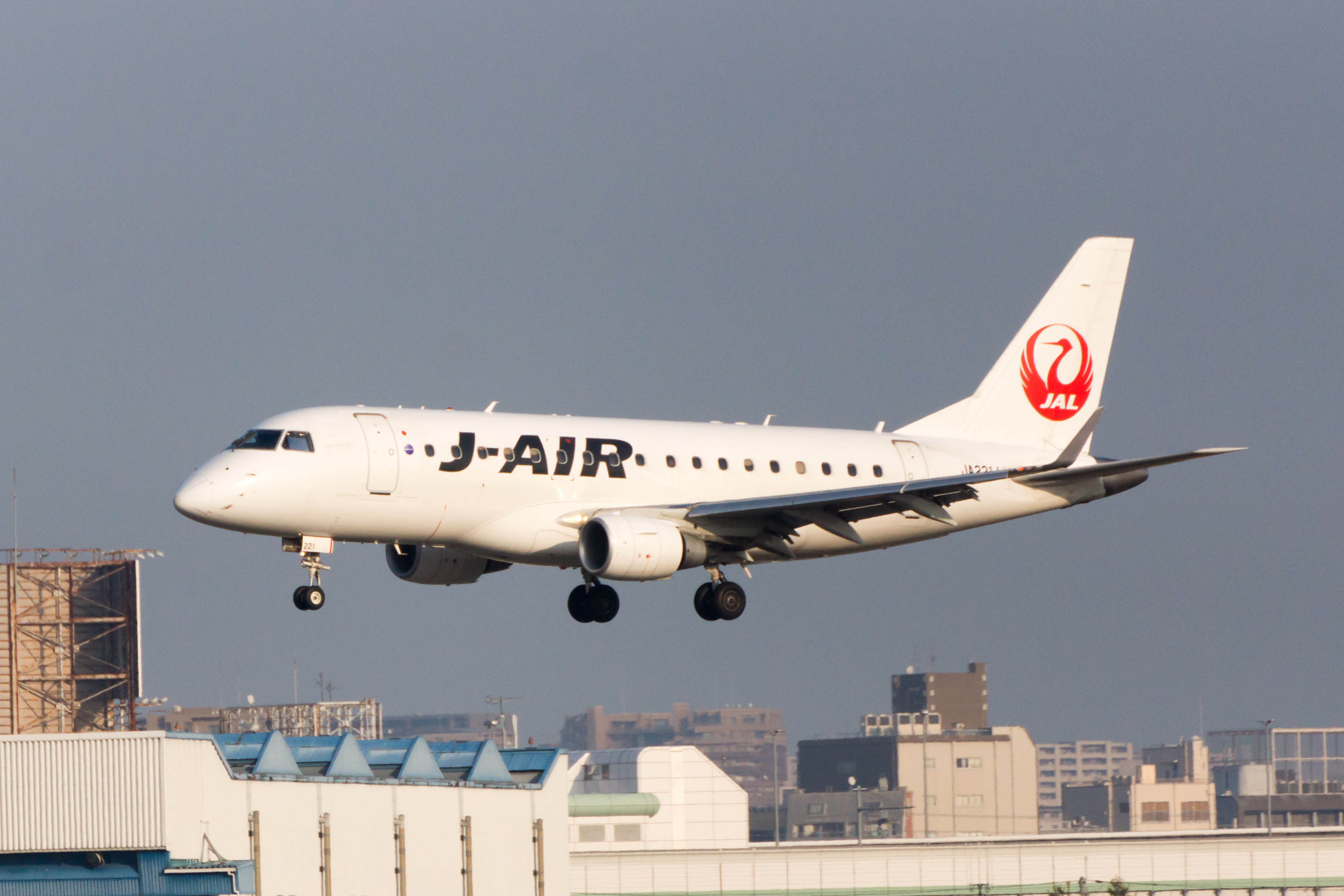 J-Air / ジェイ・エア Embraer ERJ-170-100 (ERJ-170STD) JA221J JL2174, Arrived from Akita Osaka Itami Int'l Airport